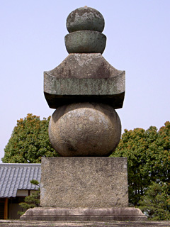 Eisonto-mae